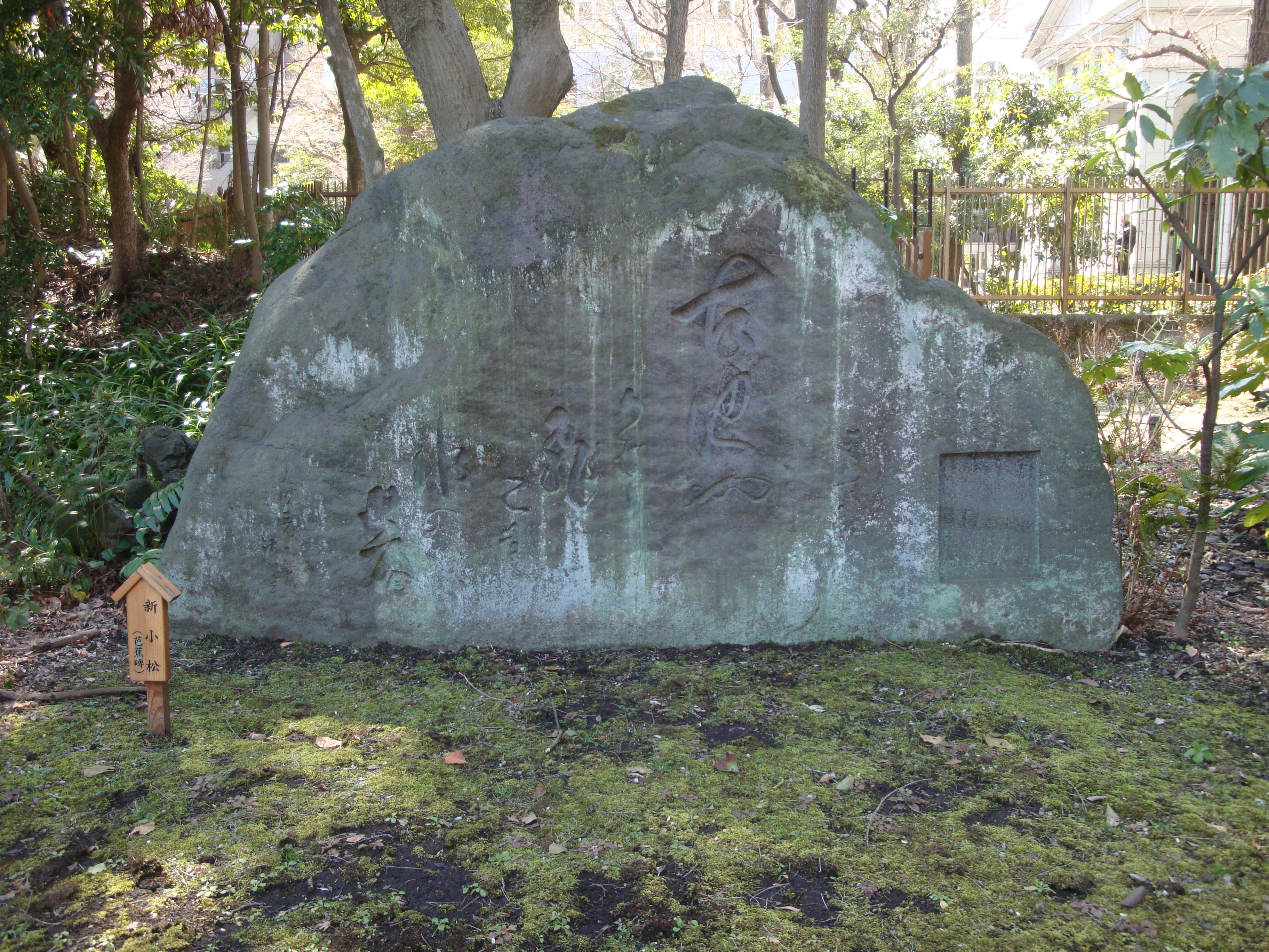 Haiku of Basho